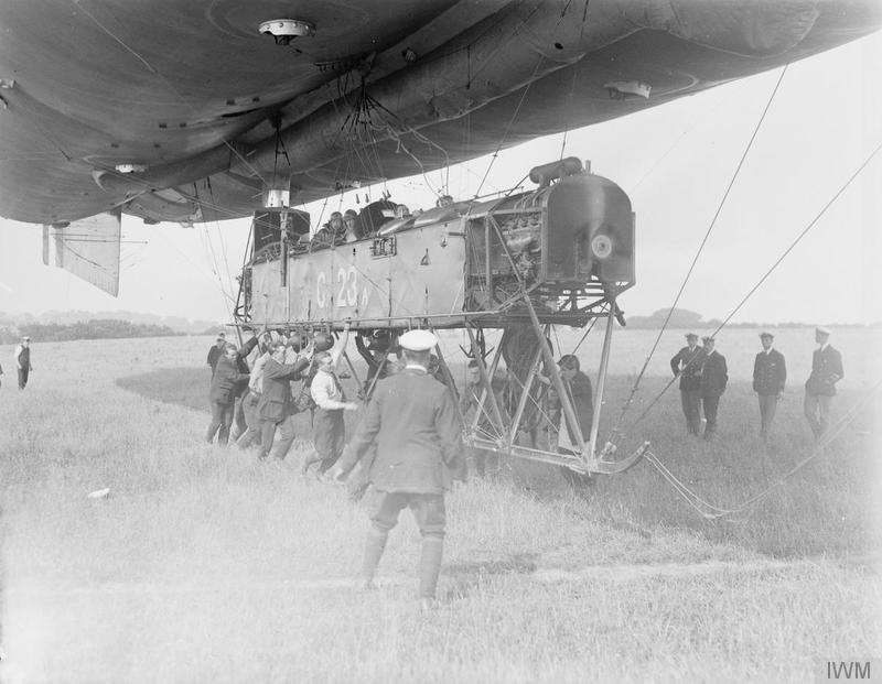 The Royal Navy on the Home Front, 1914-1918 The Royal Navy airship C.23a starting out on a submarine patrol.